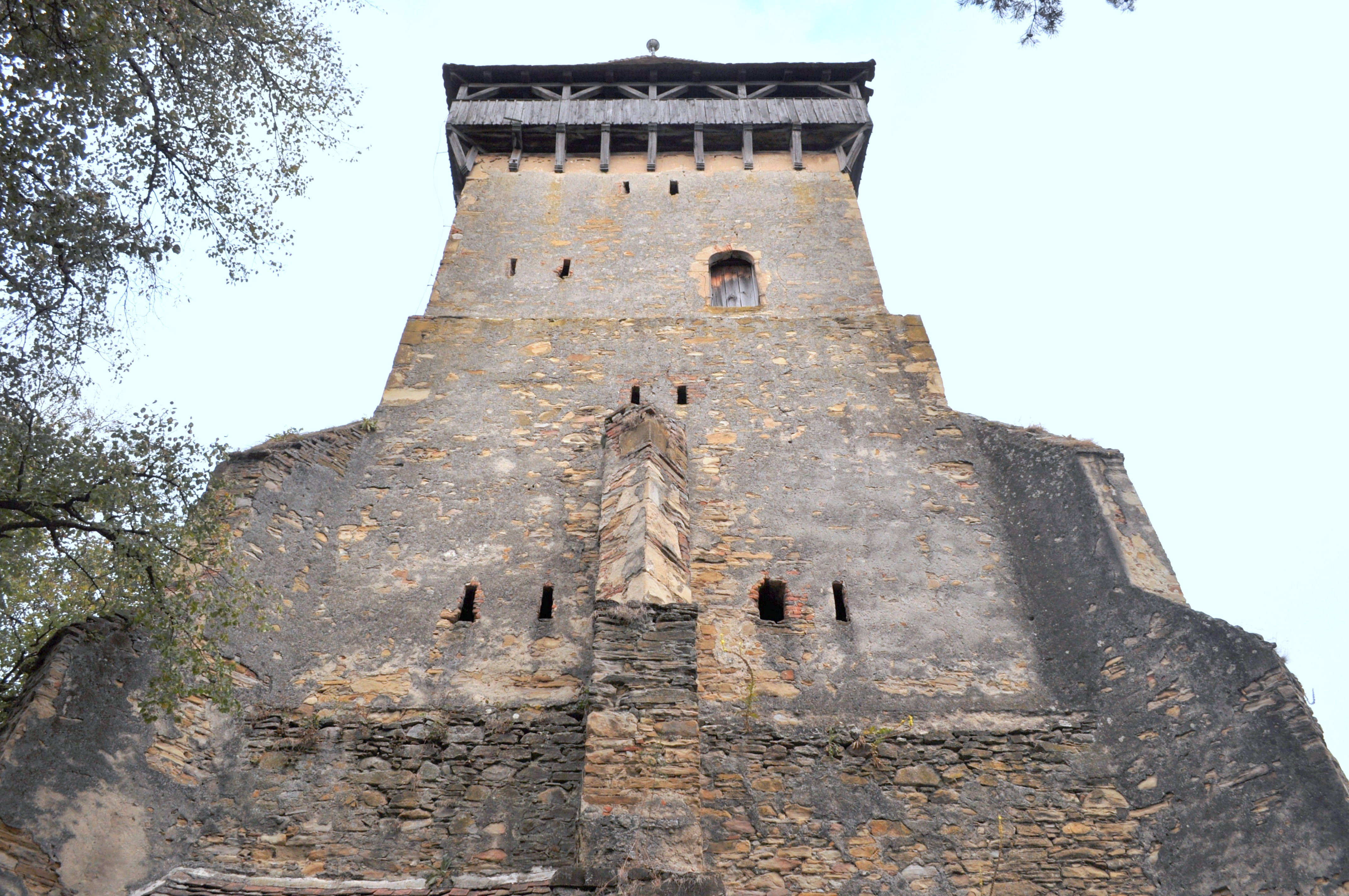 Saxon fortified church in Chirpăr, Sibiu county